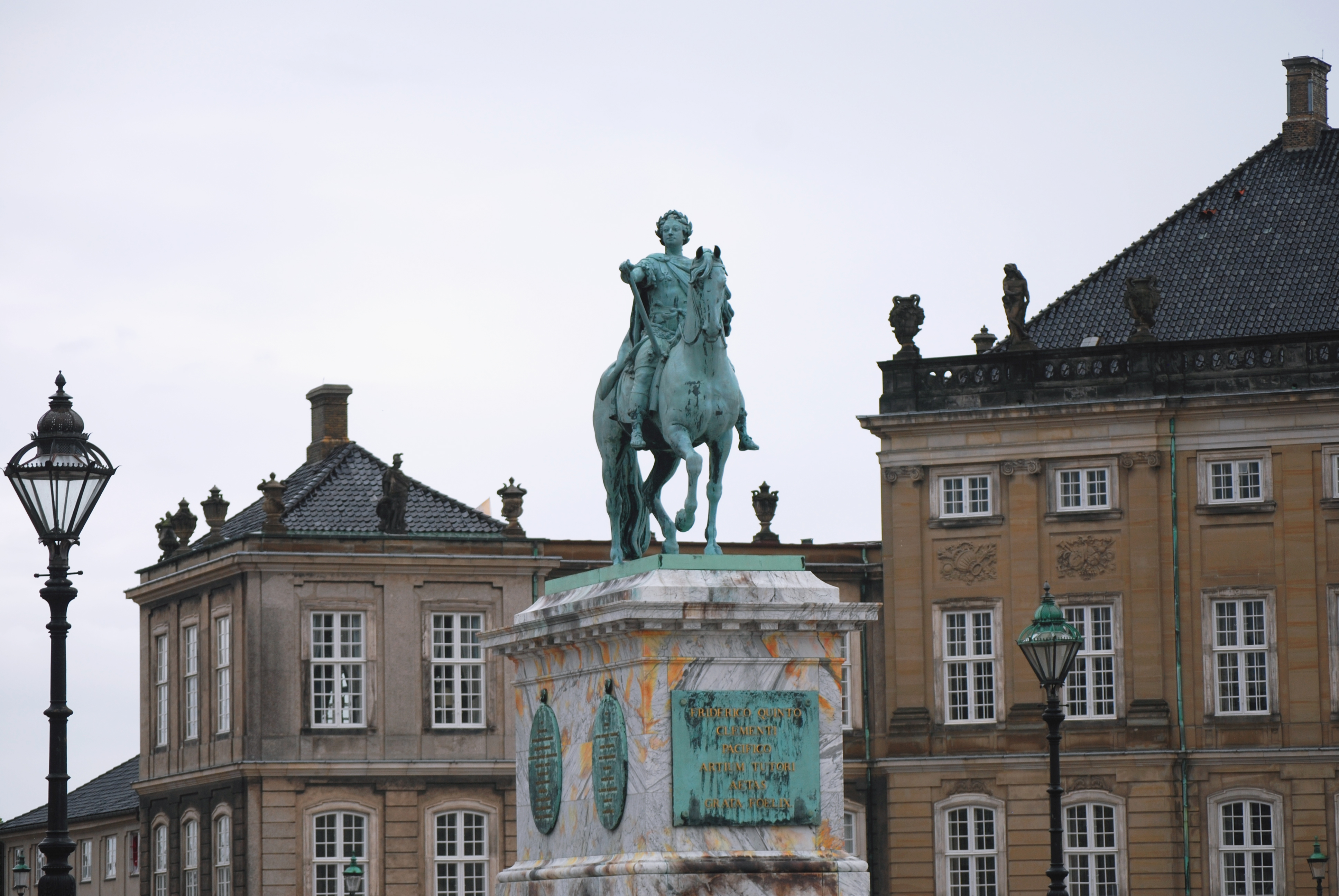 The equestrian of King Frederick V at Amalienborg Palace in Copenhagen, Denmark